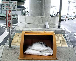 This photograph is a storage of Calucium Dichlolate(CaCl2).In Japan, CaCl2 is used to prevent freeze road and melt snow. Passenger can spread it at own decision. Suitable usage: 30 gram per 1 square meter.